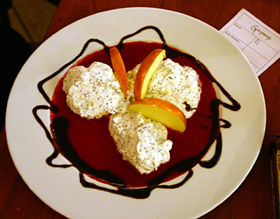 Mascarpone cream. Mascarpone is an Italian triple-cream cheese, and the main ingredient of tiramisu.